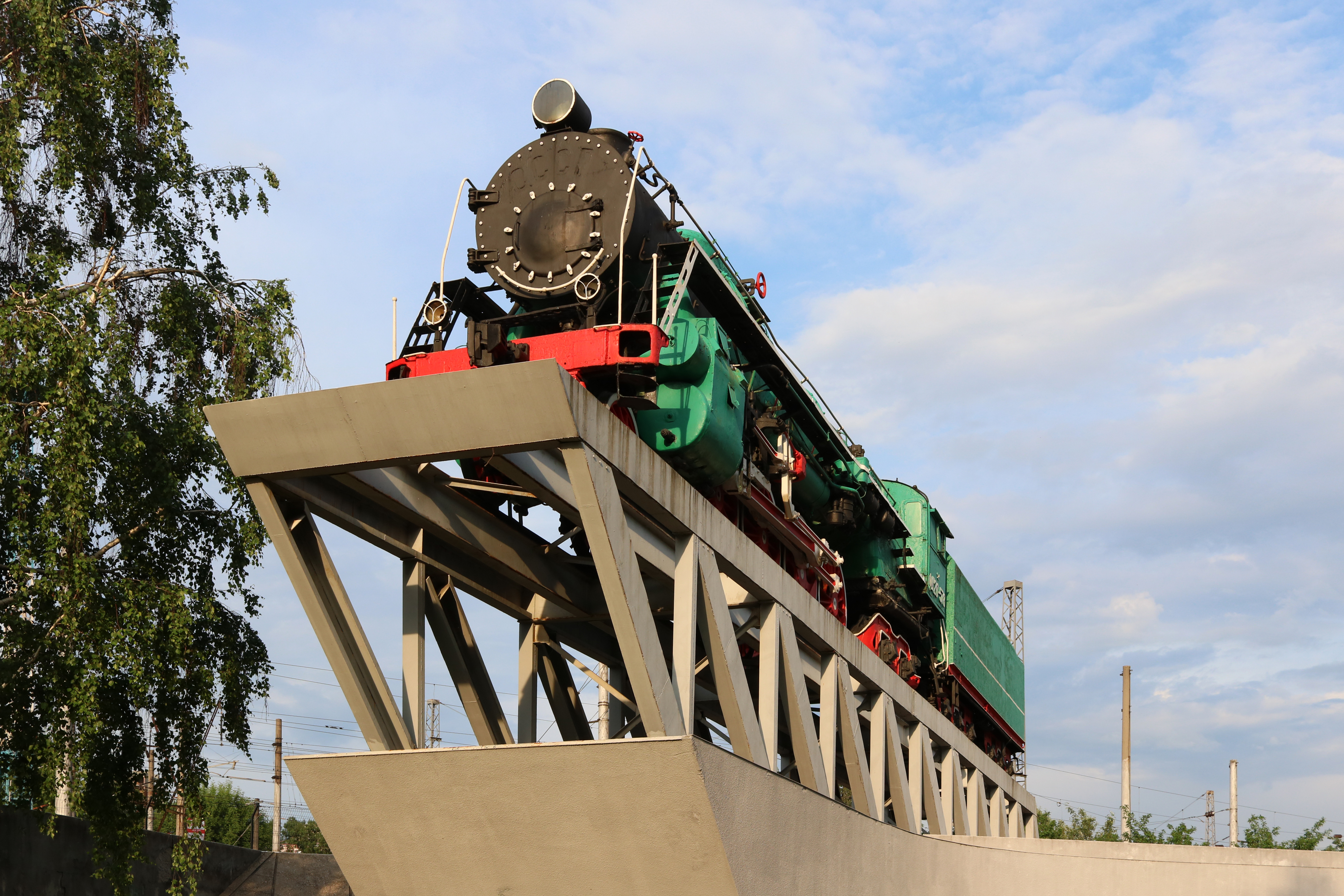 This steam locomotive IS20-578 was built in 1941 in USSR. It was renamed to FDp20-578 in 1962. Installed as a monument in Kyiv near railway station in 1982.